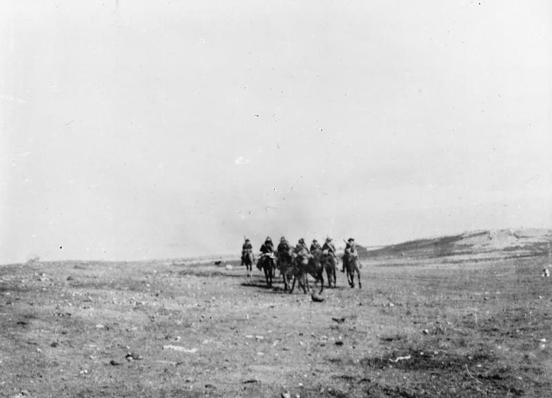 Men of the New Zealand Mounted Rifles Brigade patrolling the Jordan Valley, February 1918. (Australian and New Zealand Mounted Division)